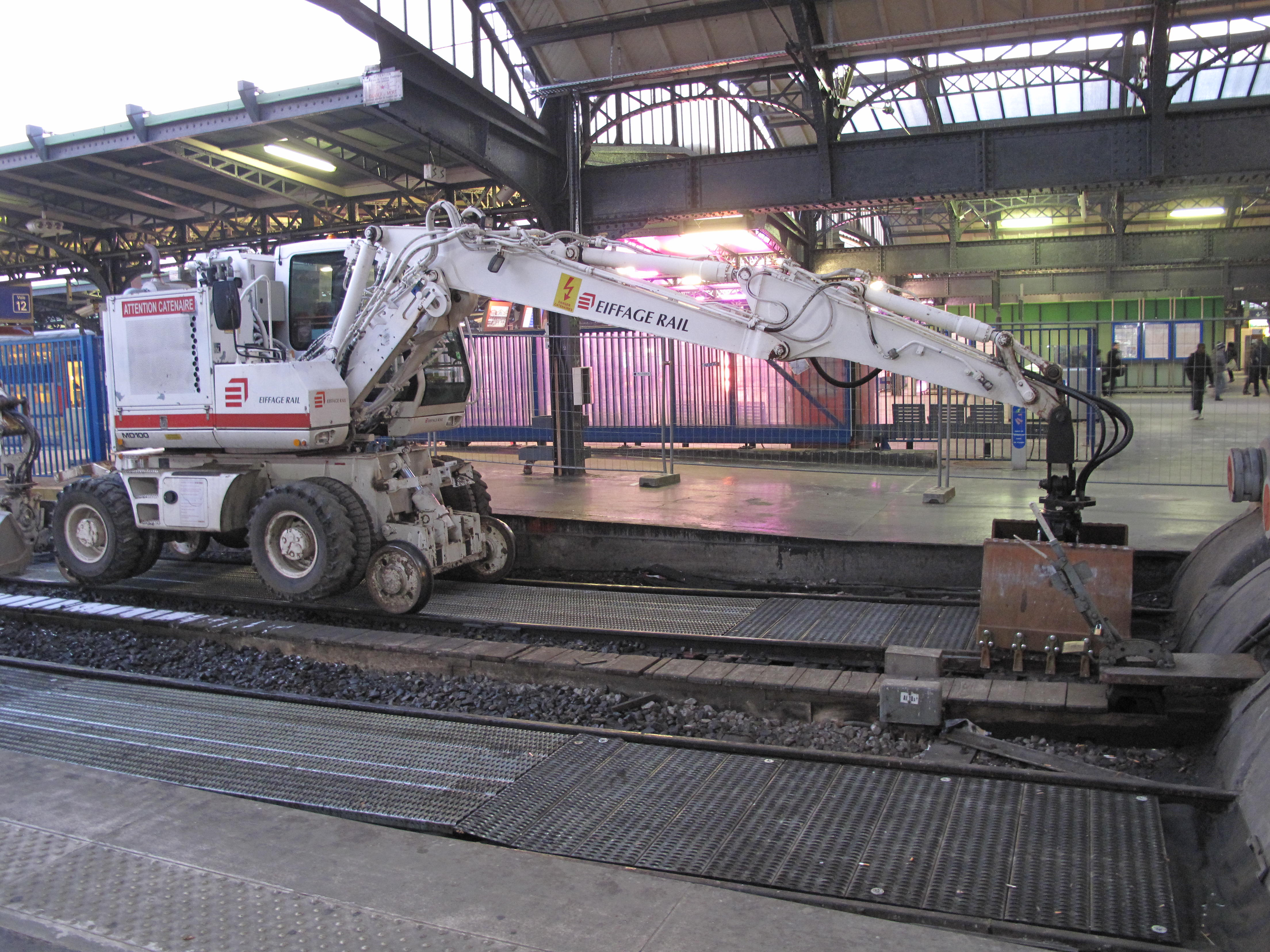 Road-rail excavator at the end of the tracks of the station gare de Paris-Est.